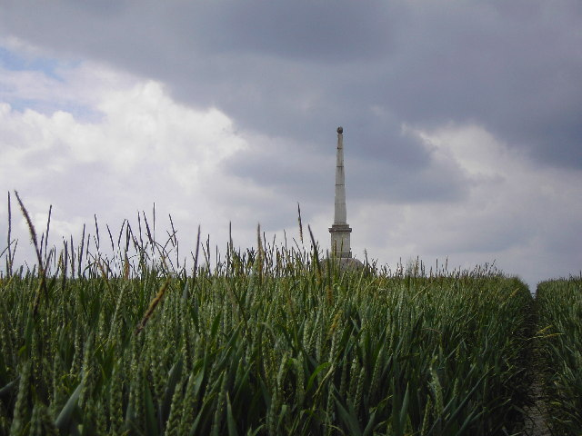 The Obelisk A short walk from the road (and invisible from it) on a (for the county) high point stands this charming monument. I know nothing of Gregory Wale, but I know of few better epitaphs than the inscription at the base of the obelisk. There are fine views to the south.